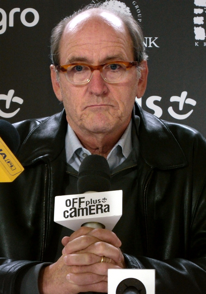 Richard Jenkins speaking at a panel at an independent film festival in Kleparz, Krakow, Lesser Poland.